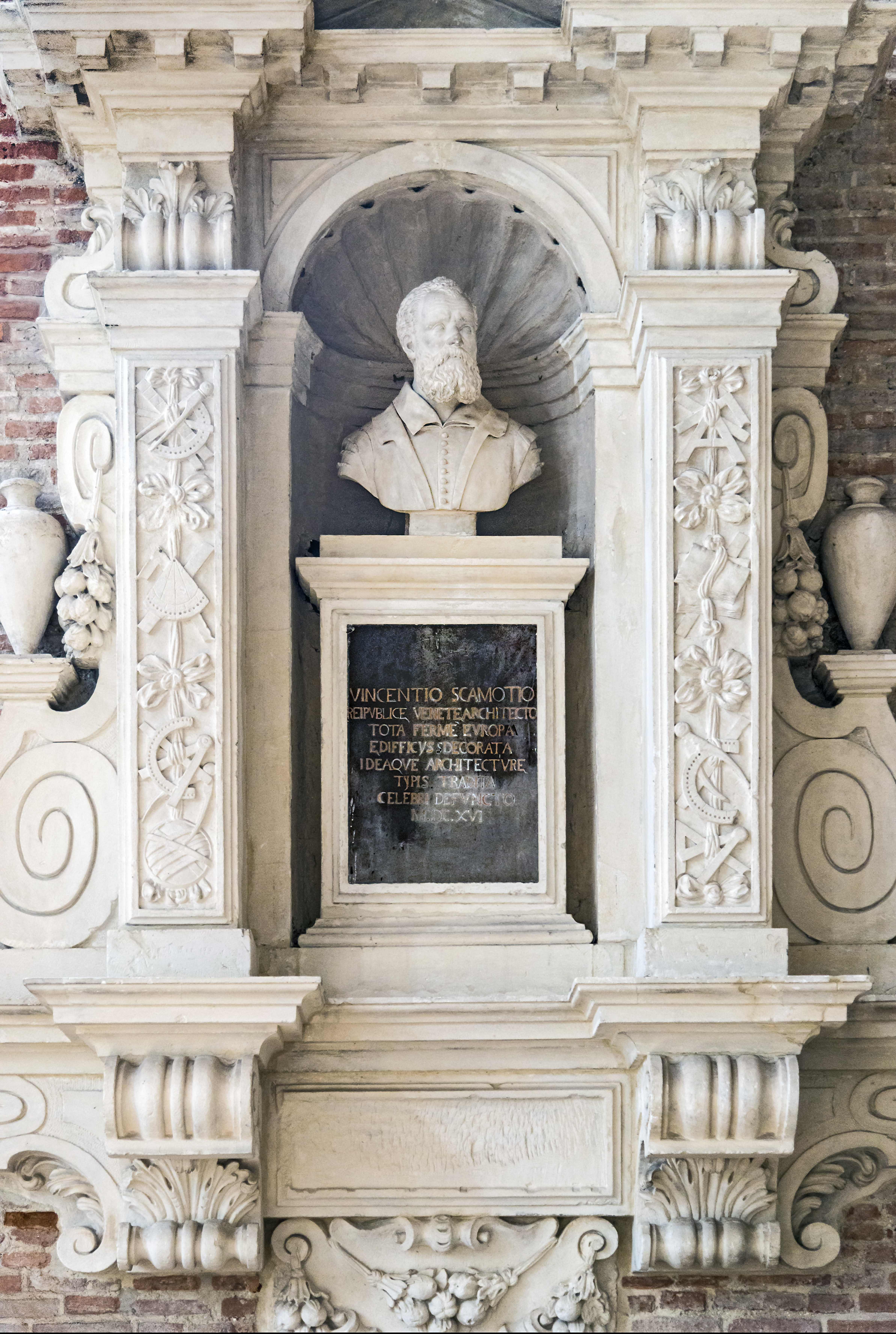 Church San Lorenzo in Vicenza - counter-facade - Monument to Vincenzo Scamozzi.